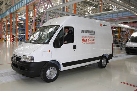 Vladimir Putin familiarized with the operation of the Severstalavto-Yelabuga auto assembly plant, Russia. Fiat Ducato Mk2 facelift.